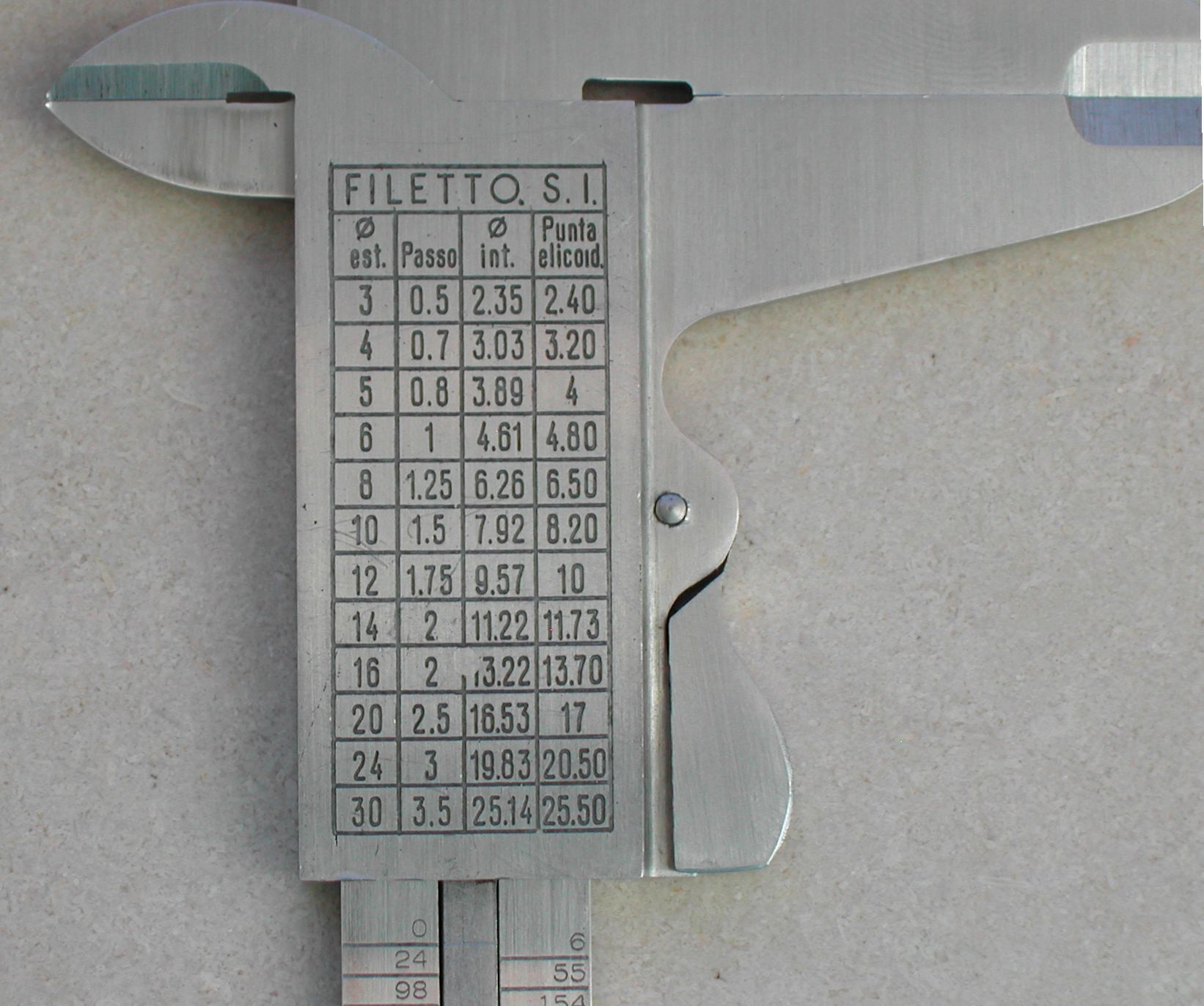 Drilling table for threading, on the back of vernier caliper